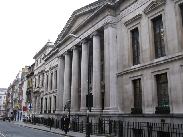 The Law Society building, Chancery Lane, WC2